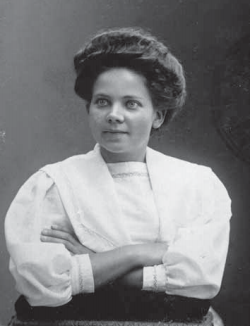 Finnish Communist Fanny Kuitunen (1884-1967) in the 1910s.